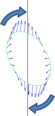 If the tidal bulges of a body are misaligned with the major axis they exert a torque on that body which twists the body towards the direction of realignment.